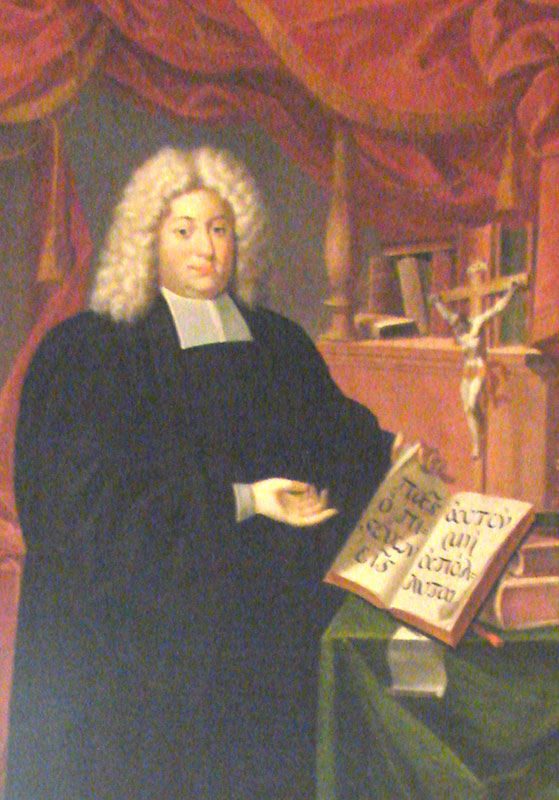 Hieronymus Dathe (1667-1707) Protestant theologians from Germany